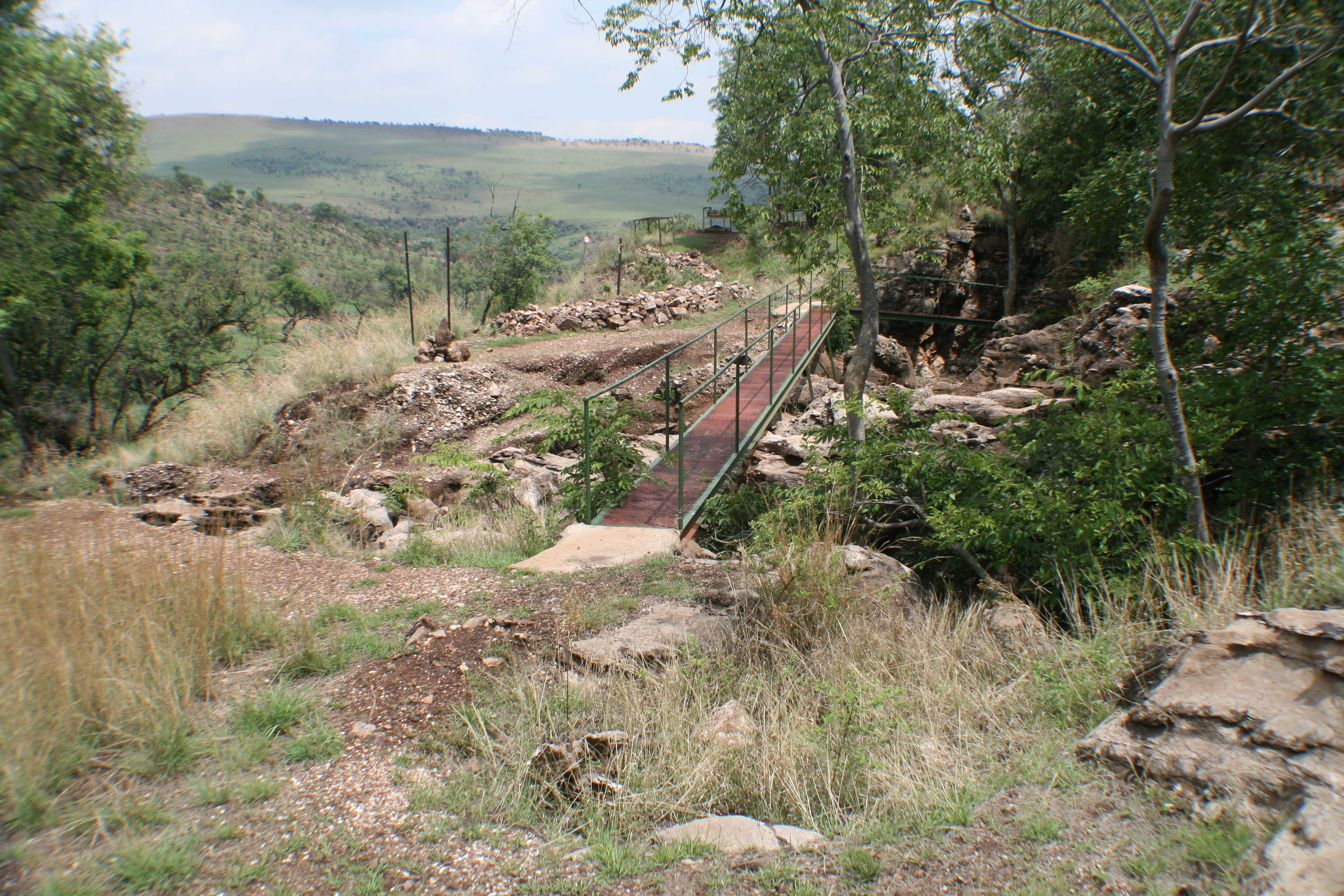 Gladysvale Cave, South Africa.